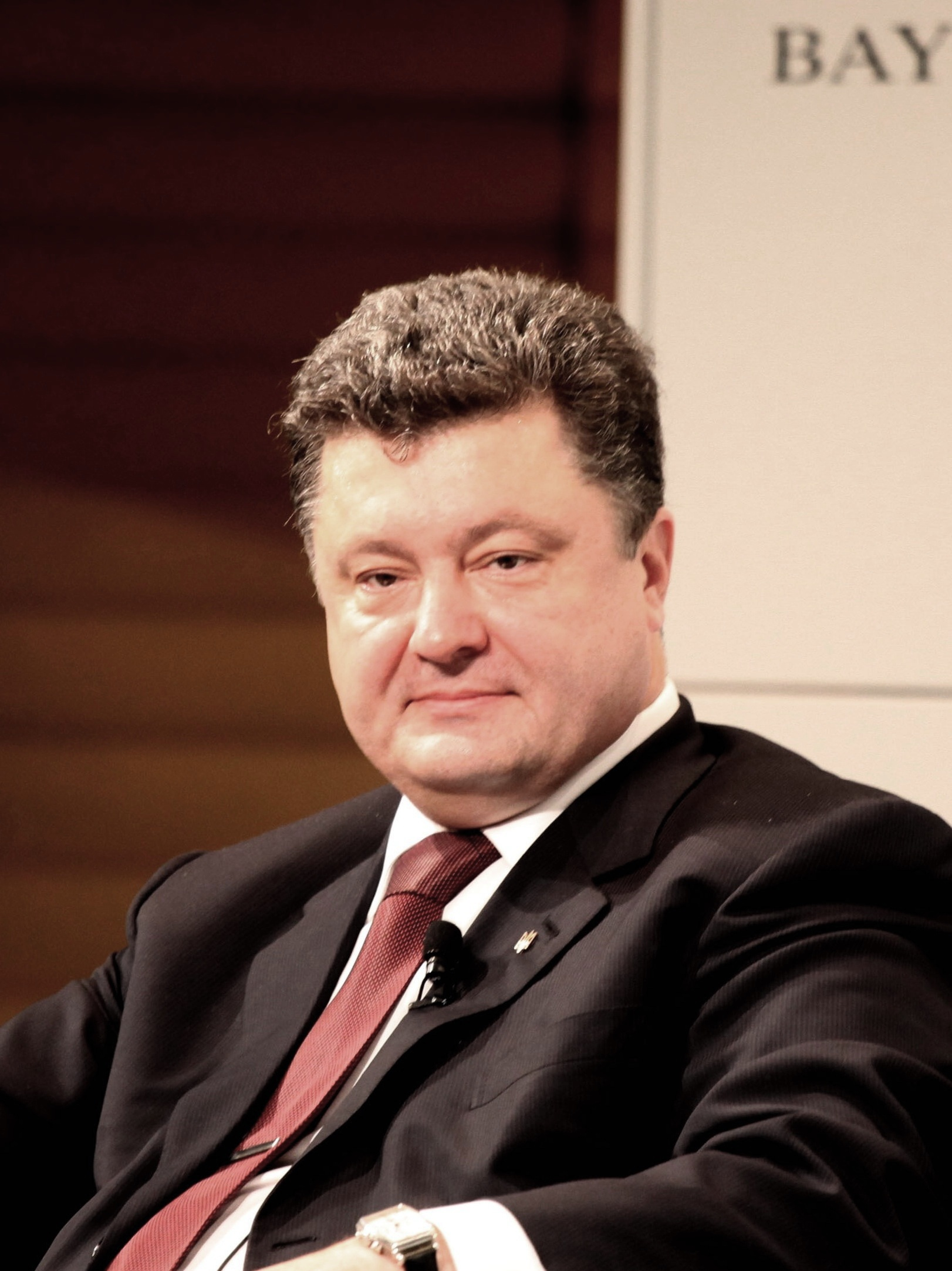 46th Munich Security Conference 2010: Petro Poroshenko, Ukrainian oligarch. In 2008 the magazine "Focus" praised the state Poroshenko $ 1, 450 billion, and the magazine "Correspondent" - at $ 1, 1 billion